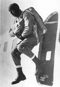 This publicity photo from 1942 purportedly shows a Marine of the Lakehurst, New Jersey, parachute school jumping from an aircraft in flight. While it was likely staged on the ground, it does clearly depict the soft helmet then worn by Marine parachutists in training, the main and emergency chutes, and the static line that automatically opened the primary canopy. Photo courtesy of Anderson PC826